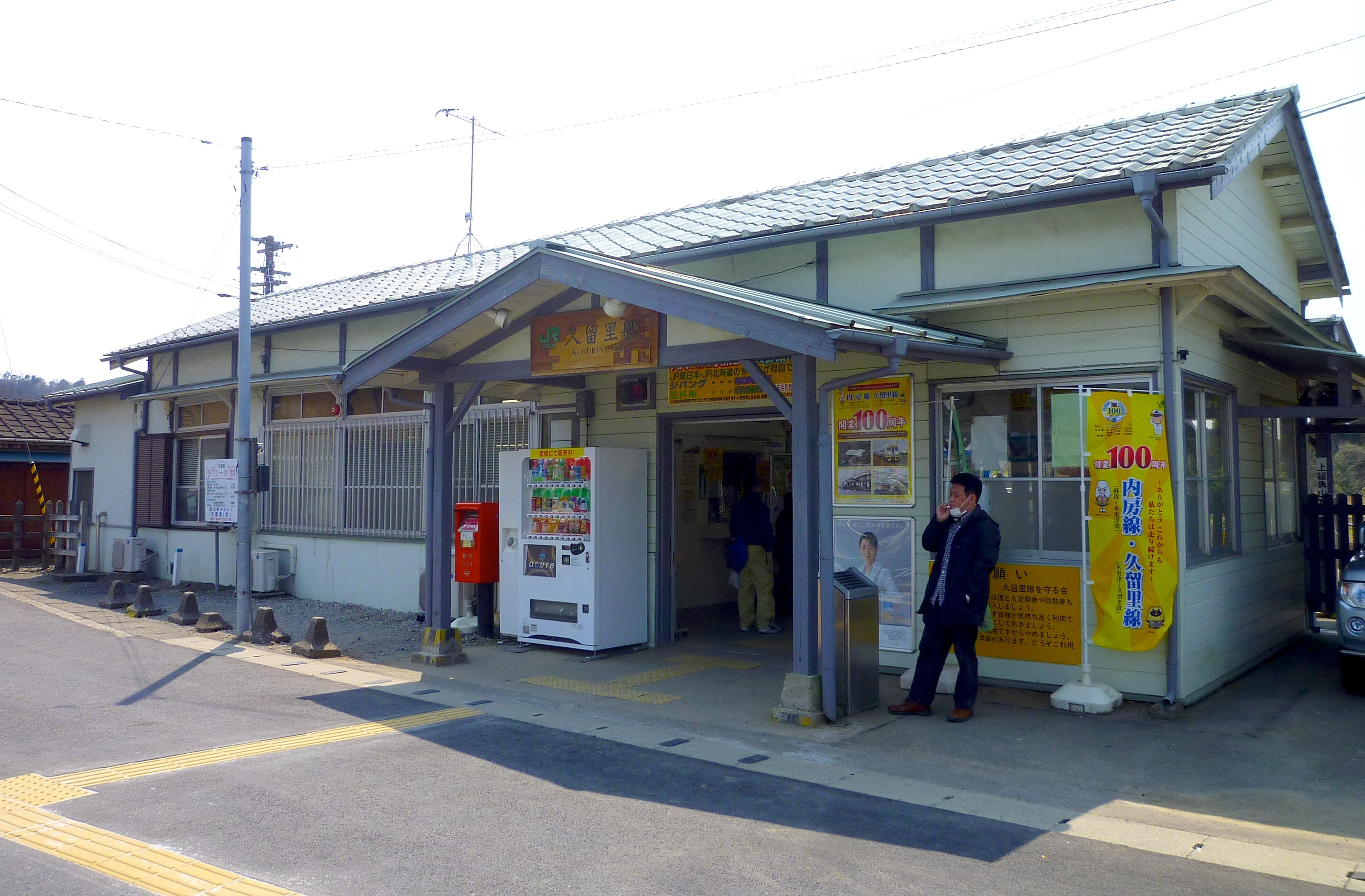 New look of Kururi station (久留里駅)